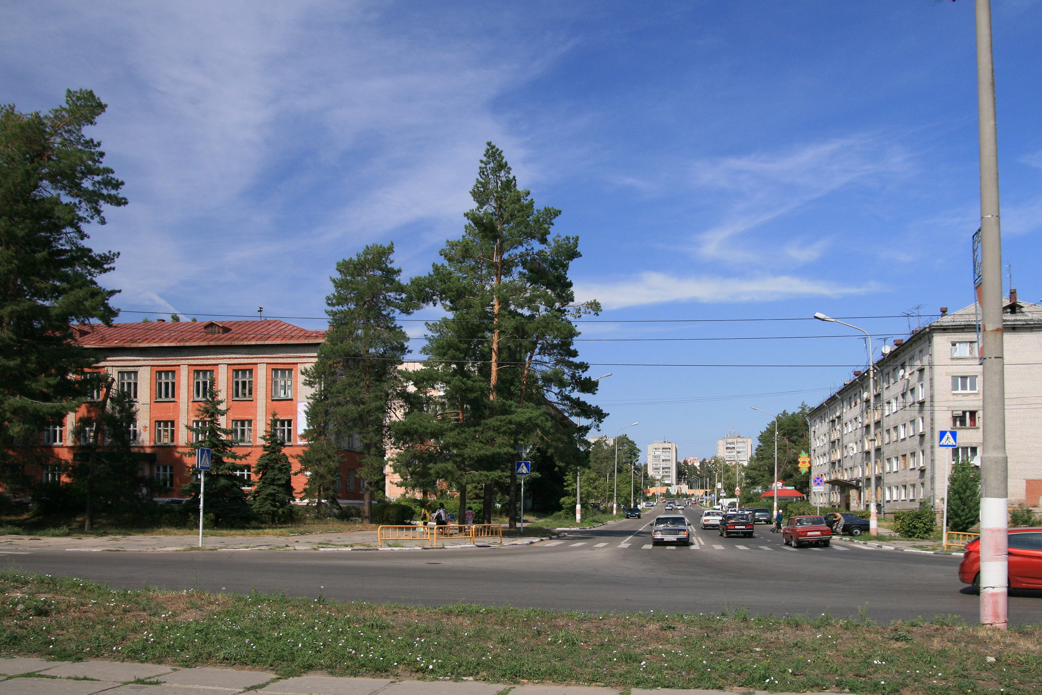 Maurice Thorez Street, Dimitrovgrad, Ulianovsk Oblast, Russia